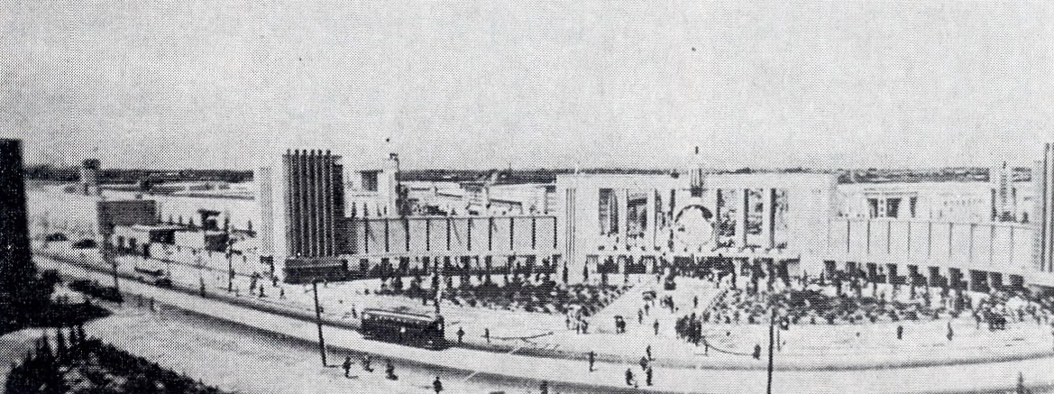 Picture of the west entrance to to the 1937 Nagoya Pan-Pacific Peace Exposition